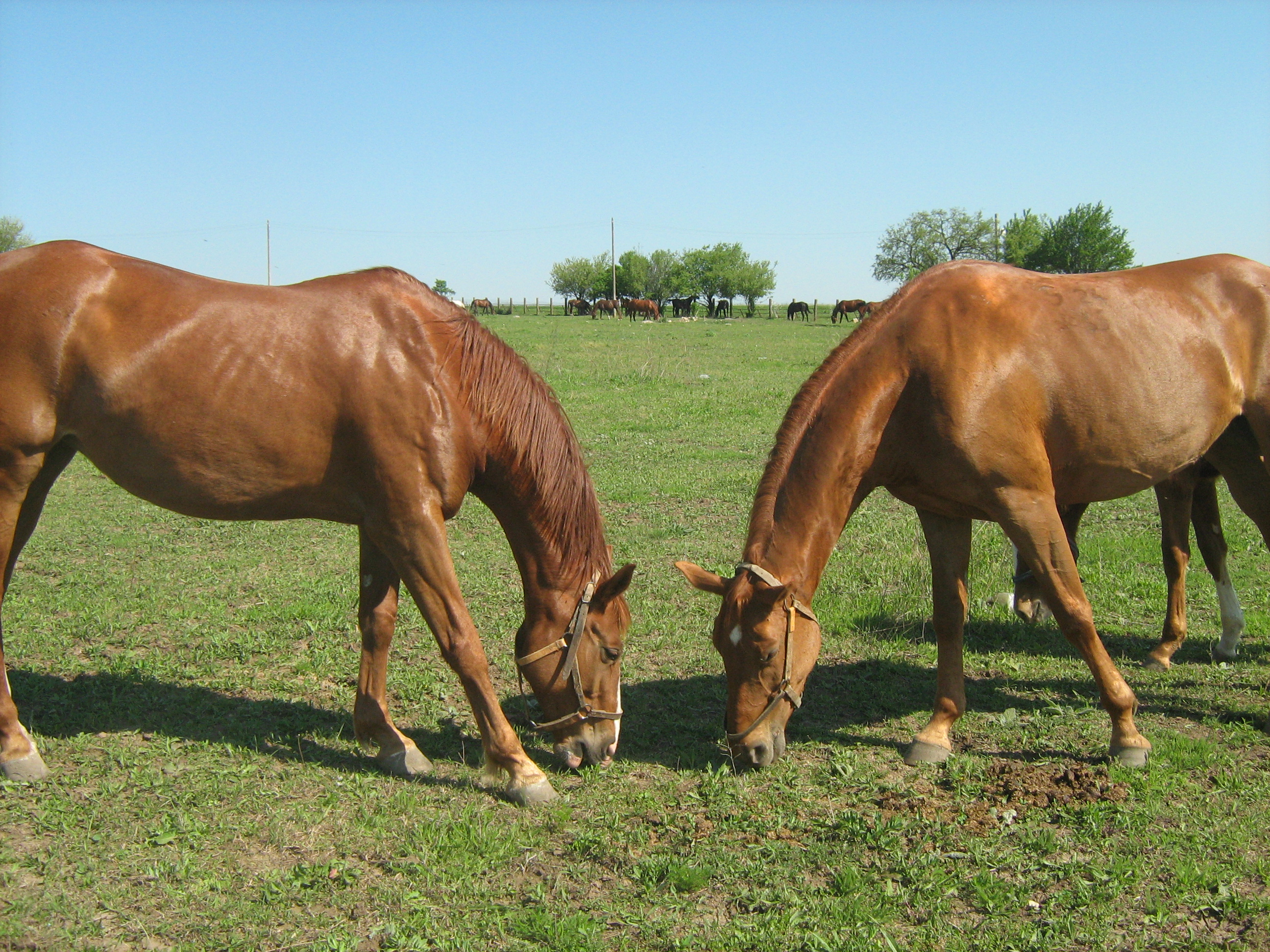 Pleven horse